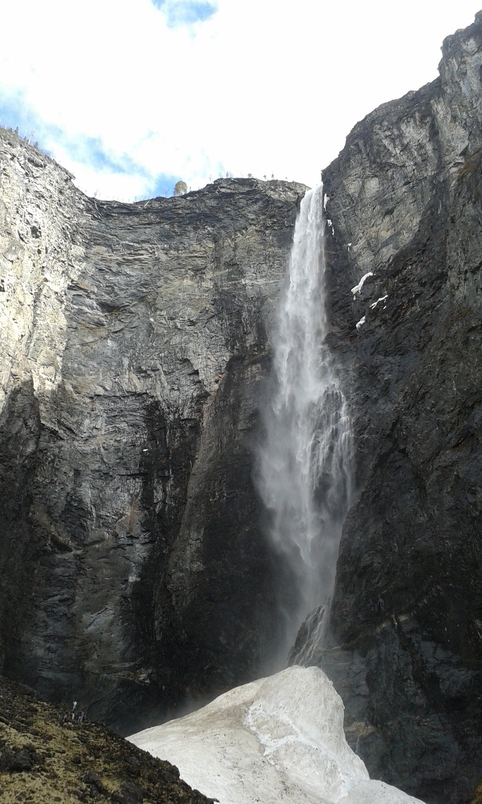 Vettisfossen is one of Norway's tallest waterfalls, and the 284th tallest in the world. It is located in the Jotunheimen mountain range inside the Utladalen Landscape Protection Area in the municipality of Årdal in Sogn og Fjordane county, Norway. The waterfall has a single drop of 275 metres (902 ft). Protected